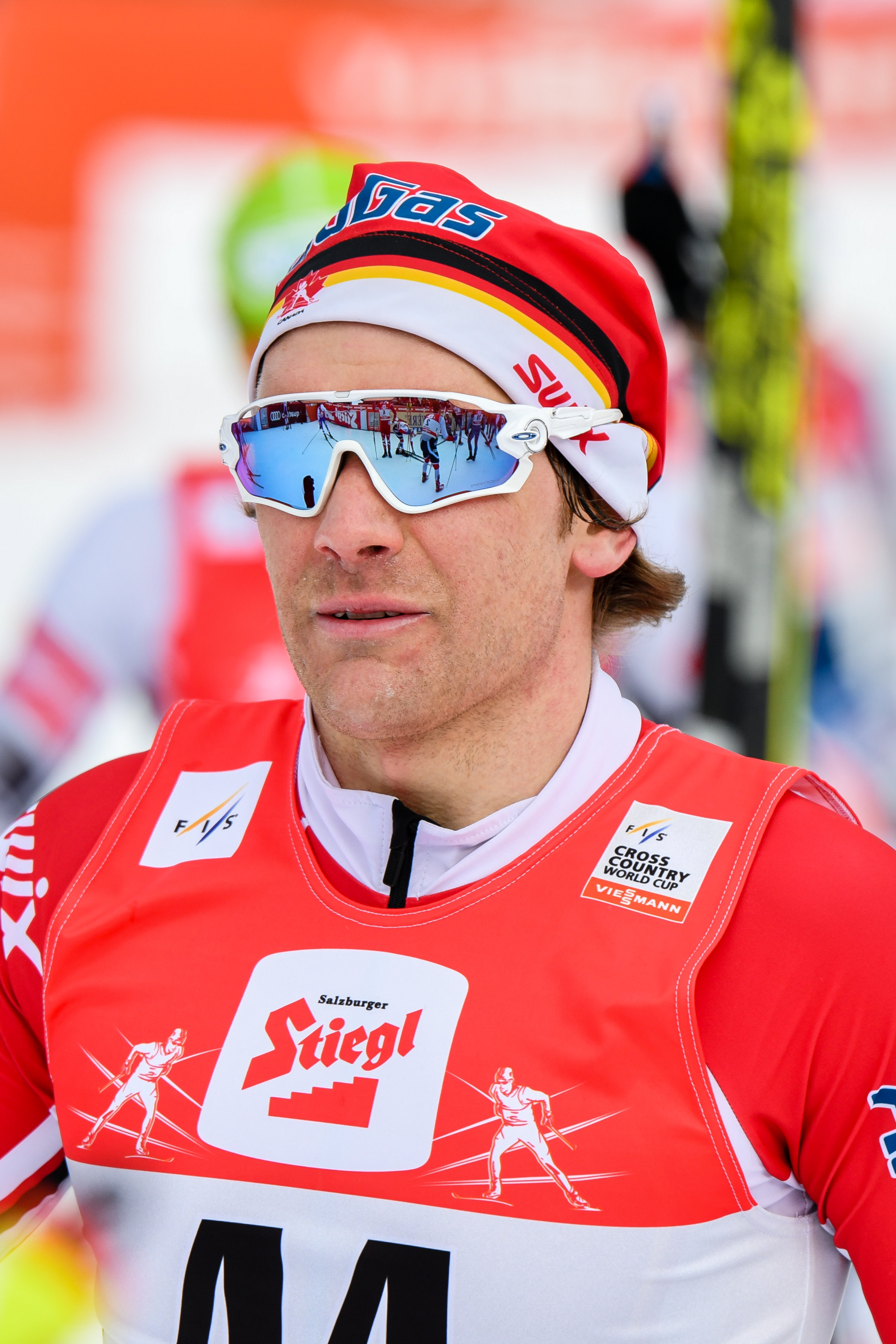 Seefeld-Triple 2018, third day January 28th. Picture shows KERSHAW Devon (CAN).